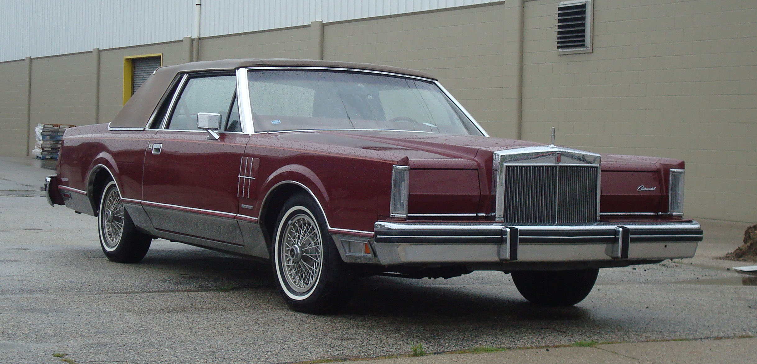 1980-83 Lincoln Mark VI